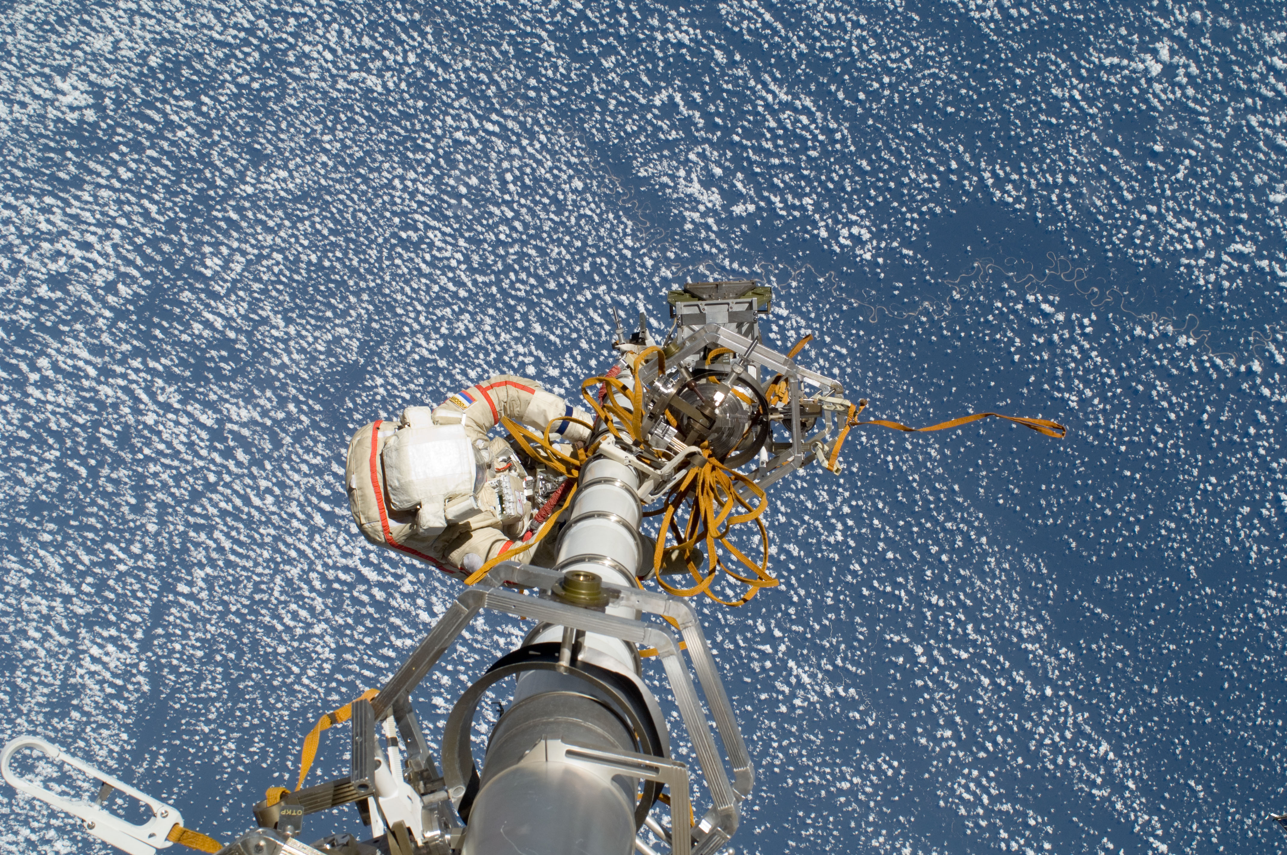 Russian cosmonaut Gennady Padalka, Expedition 32 commander, participates in a session of extravehicular activity (EVA) to continue outfitting the International Space Station. During the five-hour, 51-minute spacewalk, Padalka and Russian cosmonaut Yuri Malenchenko (out of frame), flight engineer, moved the Strela-2 cargo boom from the Pirs docking compartment to the Zarya module to prepare Pirs for its eventual replacement with a new Russian multipurpose laboratory module. The two spacewalking cosmonauts also installed micrometeoroid debris shields on the exterior of the Zvezda service module and deployed a small science satellite.